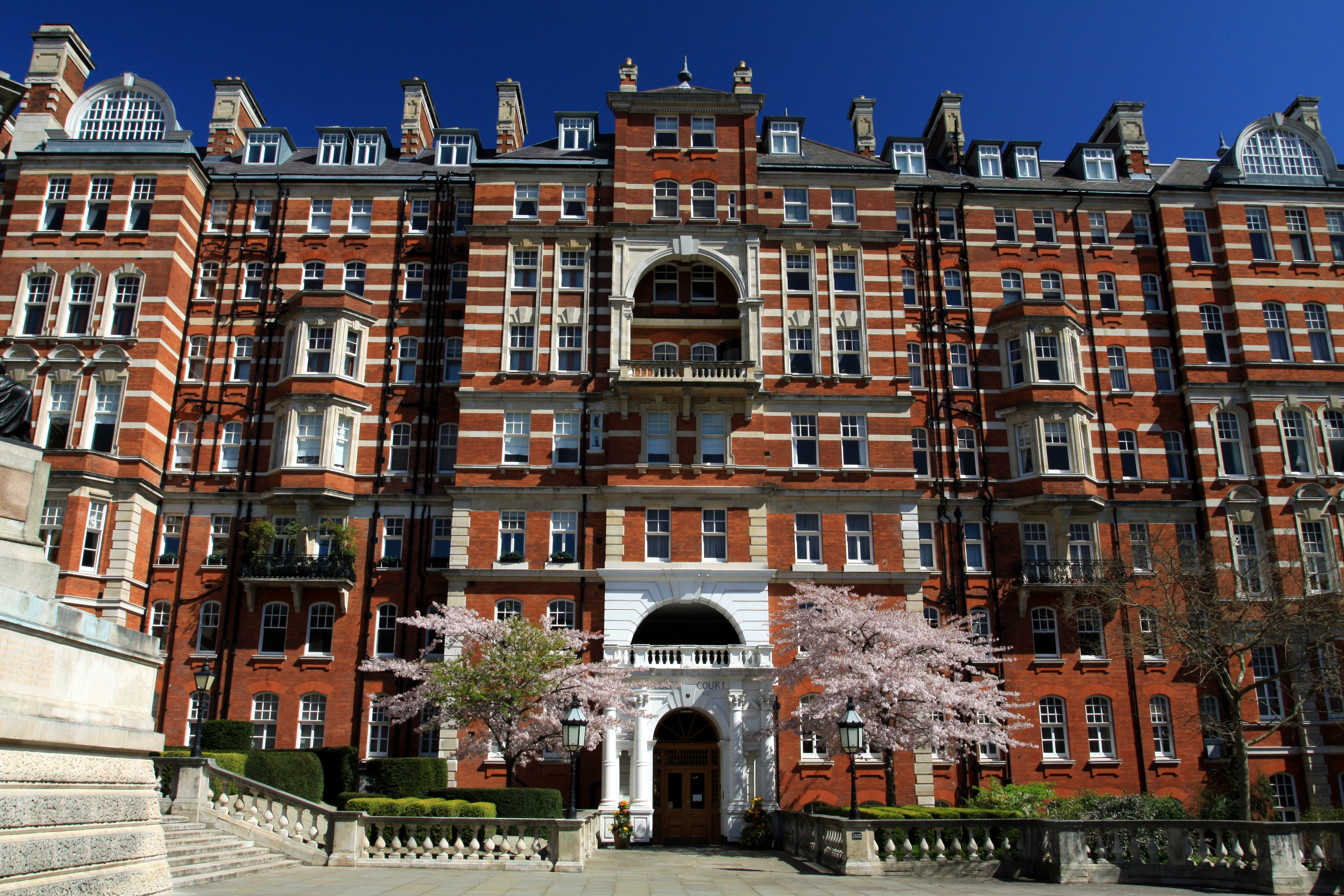 Albert court before Royal Albert Hall, City of Westminster, London, Great Britain. The making of this file was supported by Wikimedia UK.